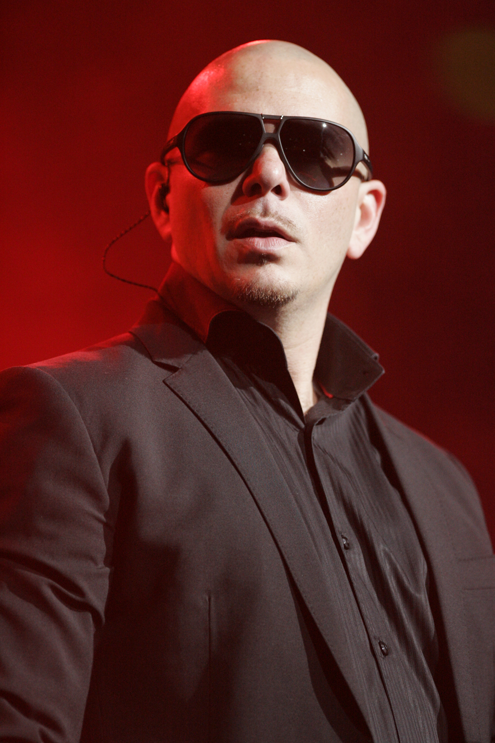 Pitbull performing at the Australian leg of his Planet Pit World Tour in Sydney, Australia.